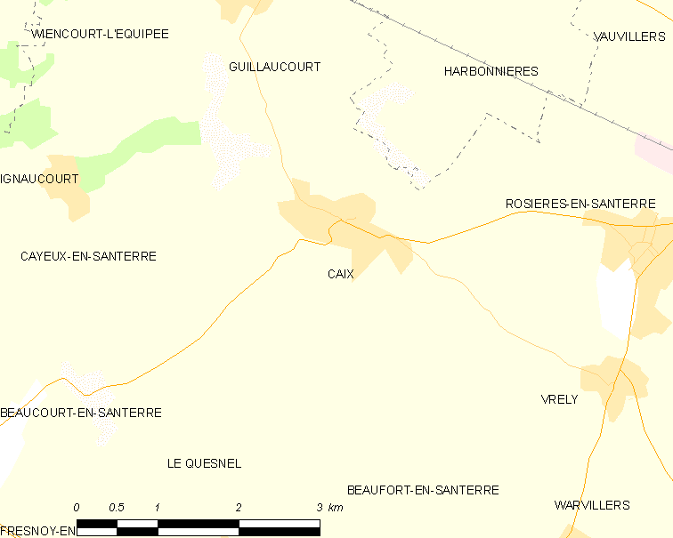 Map of French municipality Caix